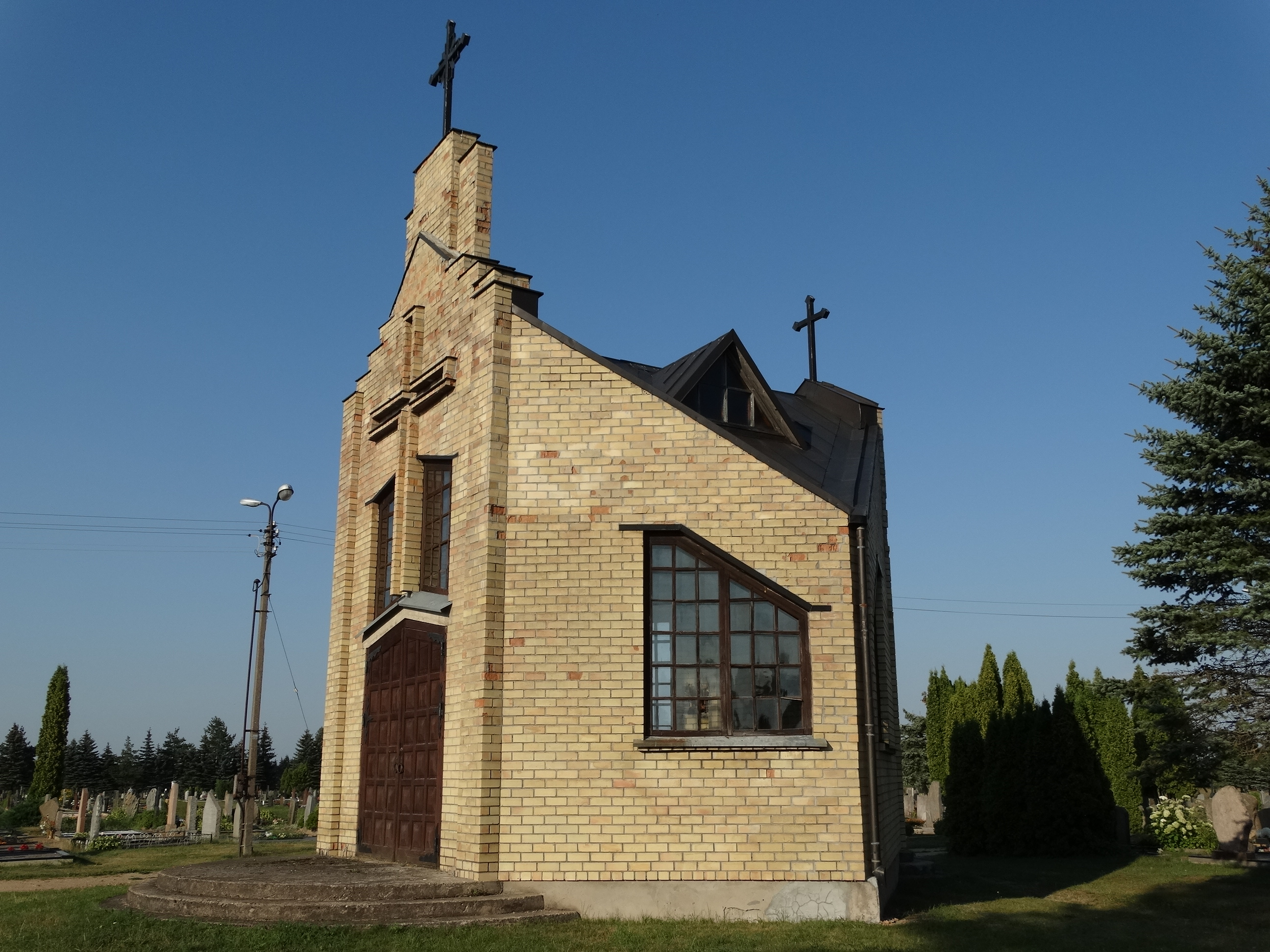 Rokiškis cemetery chapel in Kalneliškiai, Lithuania